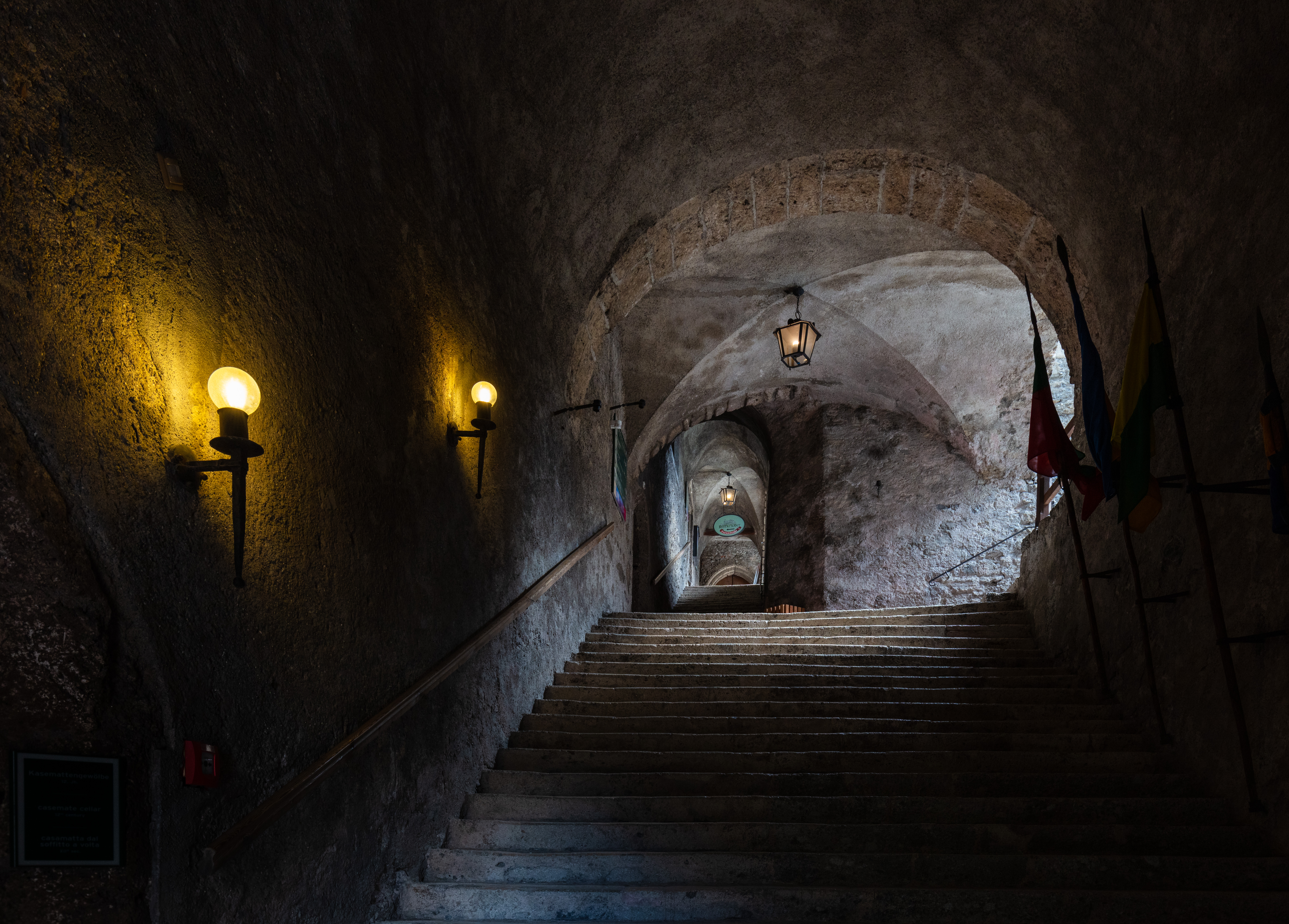 Corridor inside of castle Hohenwerfen, Werfen, near Salzburg, Austria. The medieval rock castle, situated on a 623 metres (2,044 ft) precipice overlooking the town of Werfen in the Salzach valley. The fortress is a "sister" of Hohensalzburg Fortress, both built by the Archbishops of Salzburg in the 11th century.